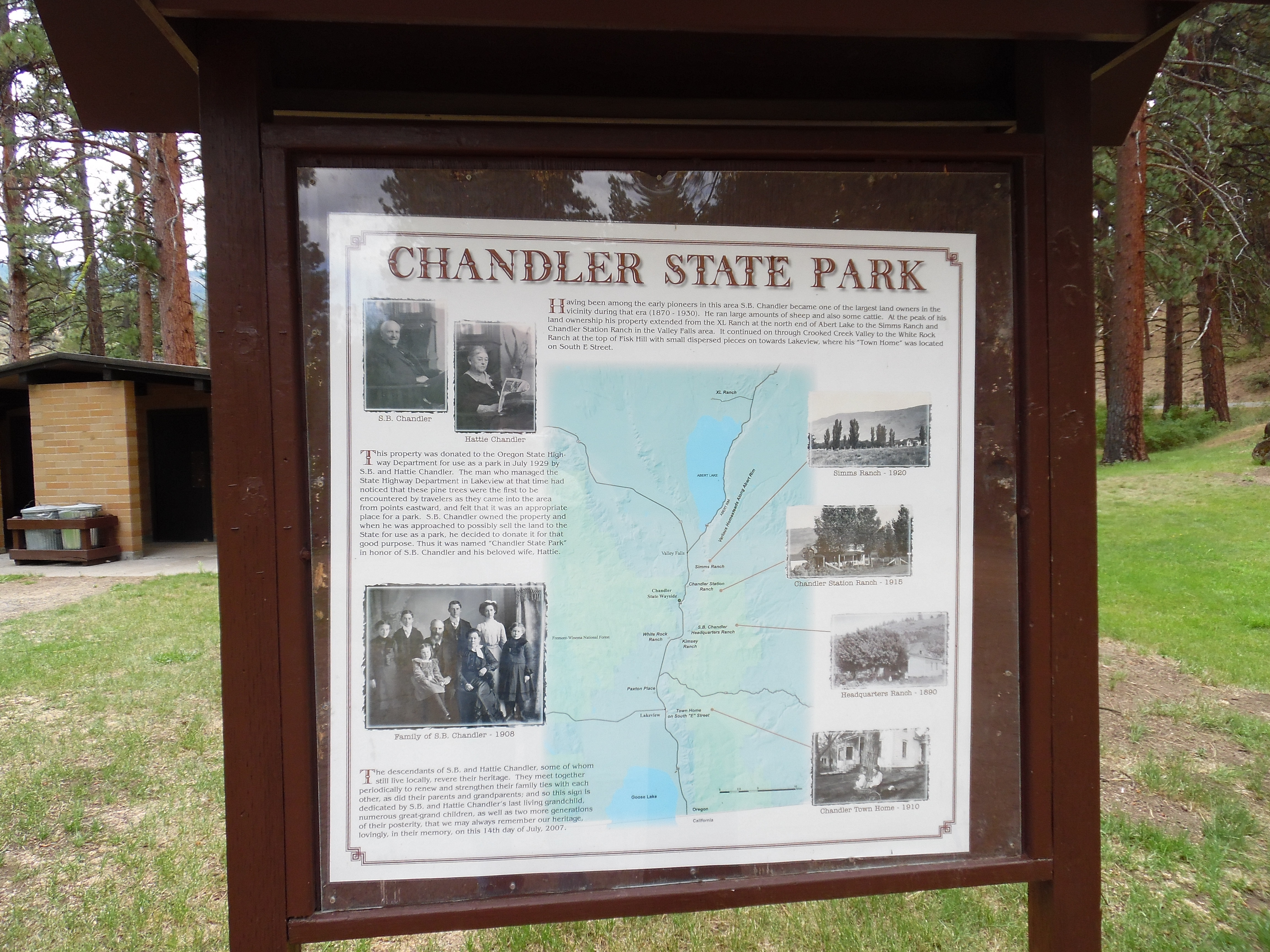 History kiosk at Chandler State Park near Lakeview, Oregon